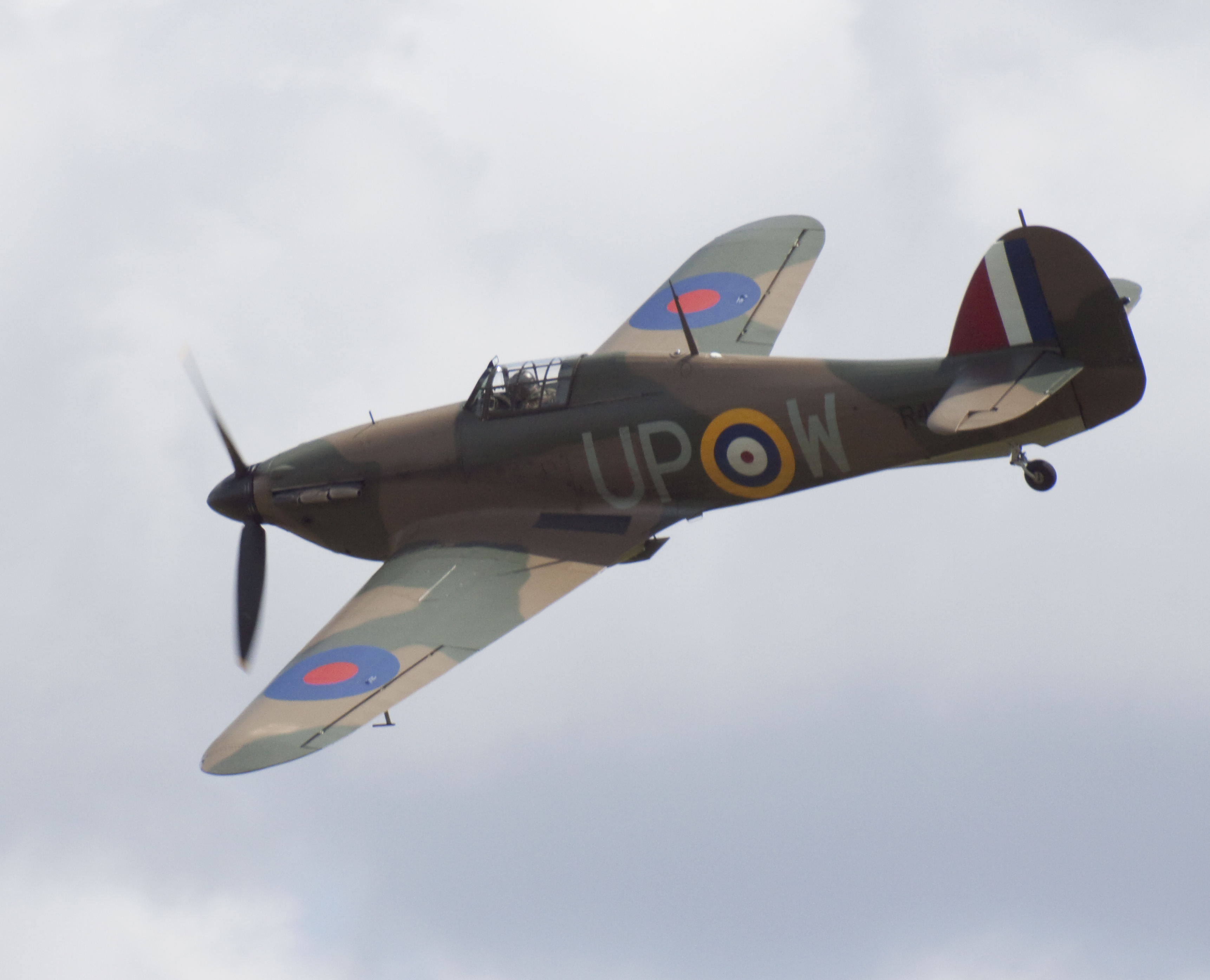 Hurricane Mk1